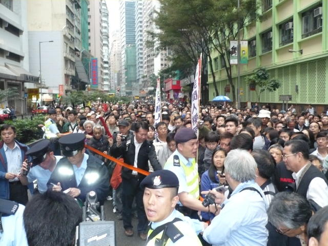 March for democracy in Hong Kong -- 1.13.2008